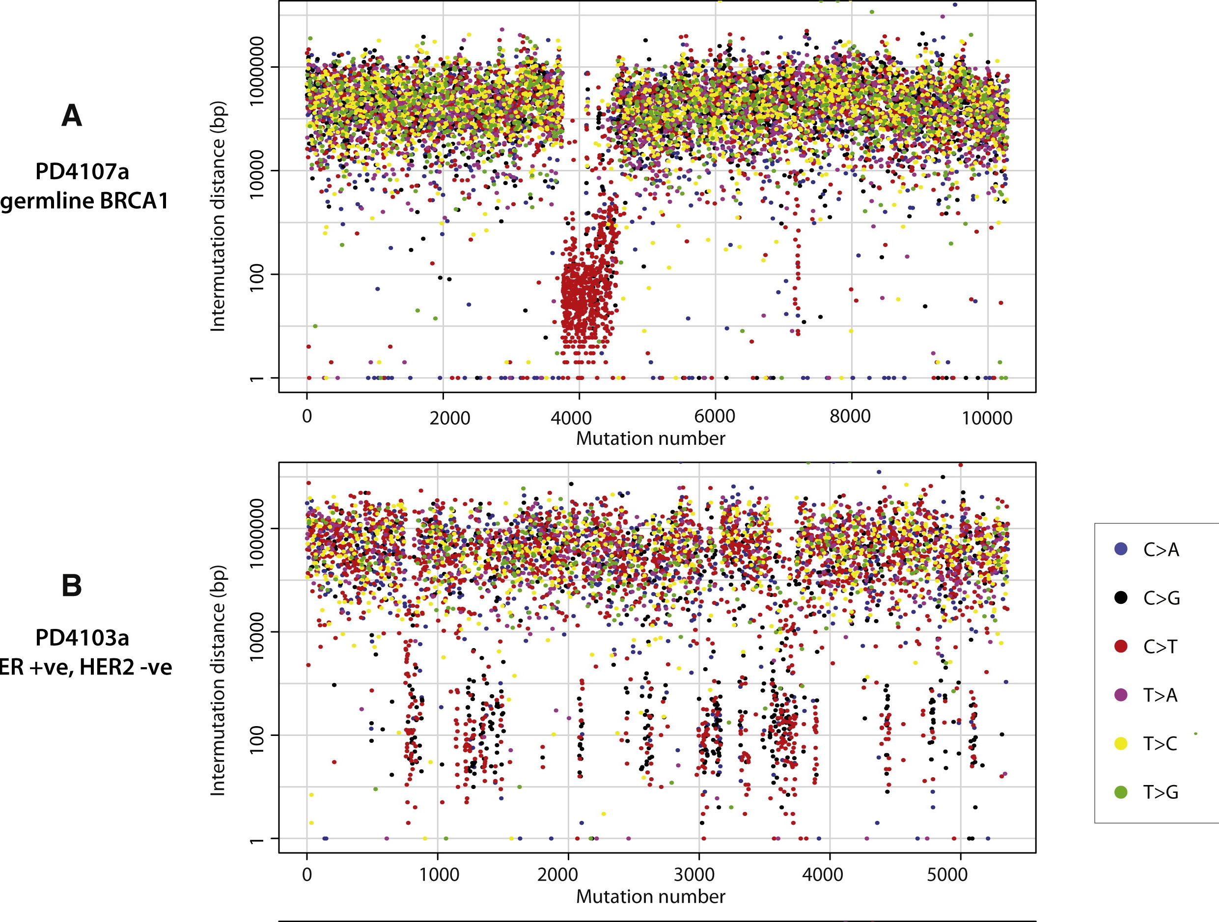 Rainplot maps the intermutational distance of breast cancer genes and tracks the basepair substitution in each mutation. The dots at the lower half of the graph show mutations that are close to each other and cluster together, known as kataegis in this case. We can see that most mutation in kataegis are consist of C→T substitution. From A) we see kataegis in a smaller region, and in B) kataegis is all over the genome. Data are originally from the Breast Cancer Working Group of the International Cancer Genome Consortium.